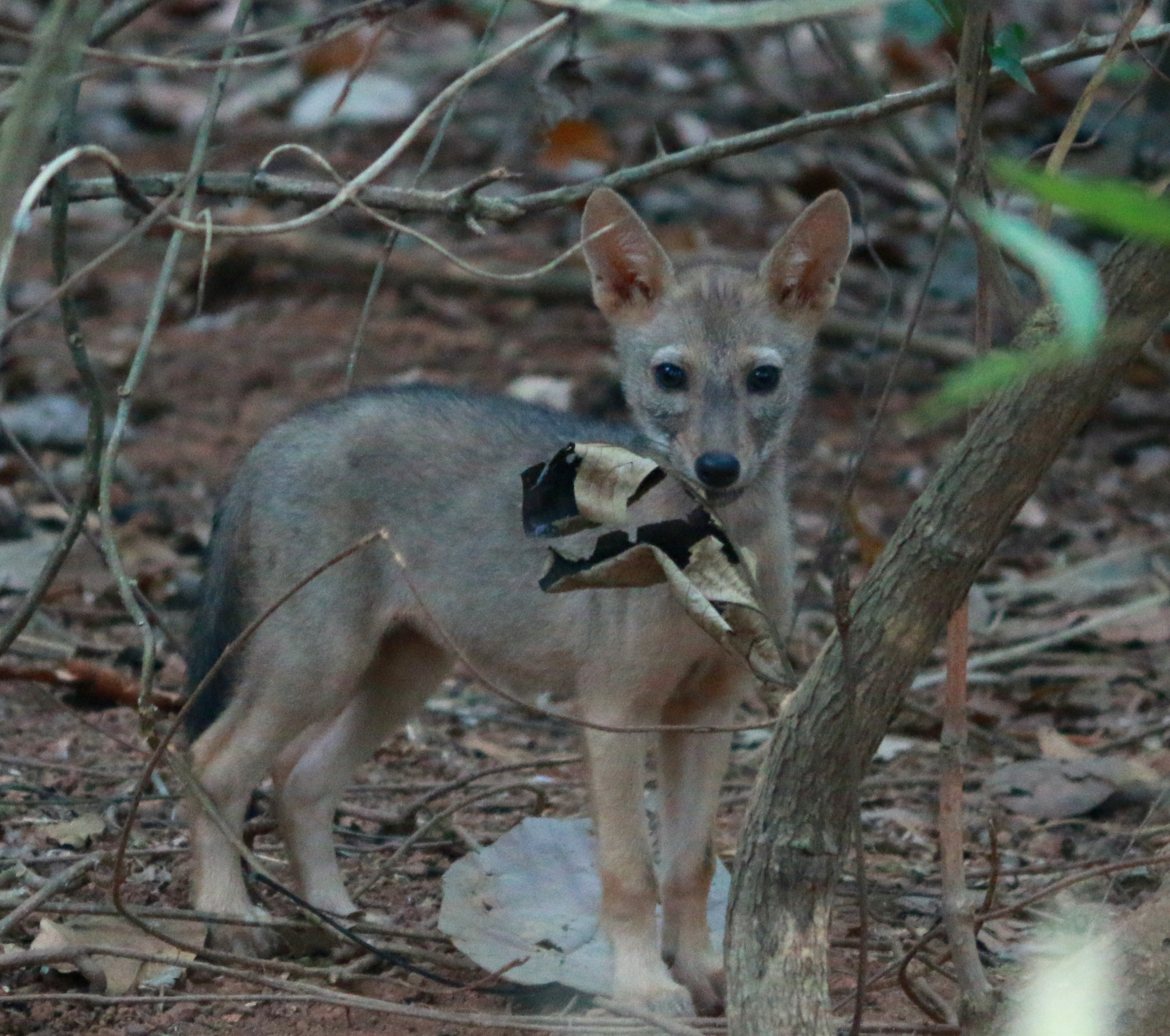 Puppy of Golden Jackal or Indian Jackal, canis aureus indicus